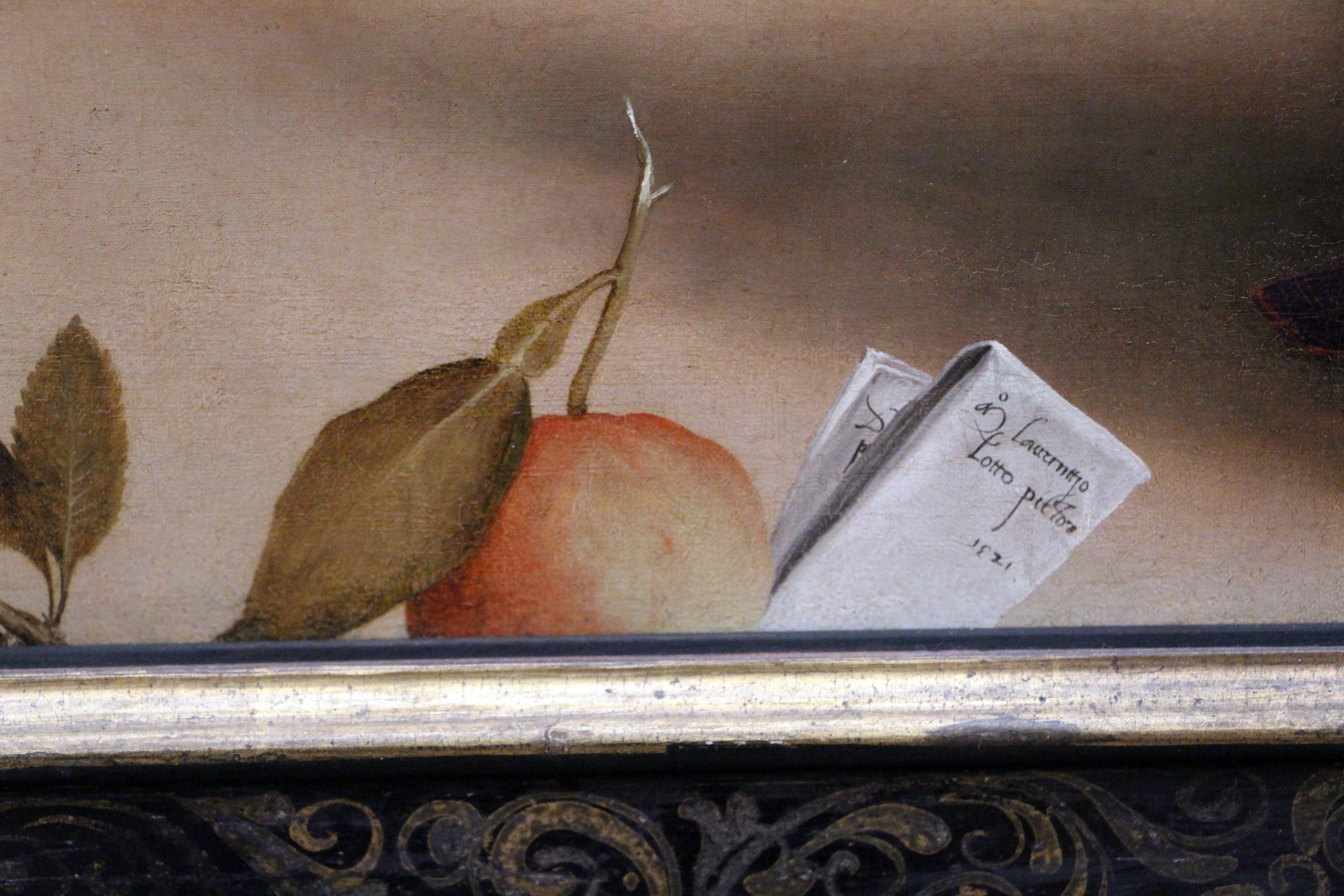 Paintings by Lorenzo Lotto in the Gemäldegalerie, Berlin